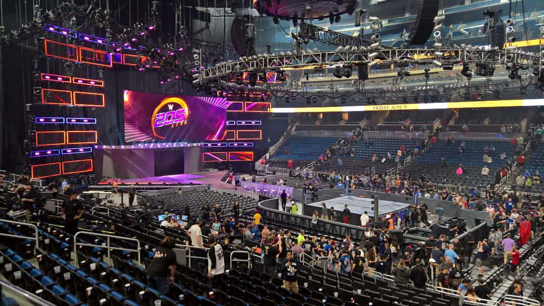 The set up! #WWE #205Live #Smackdown #SmackdownLive #SDLive #Orlando #Florida #AmwayCenter